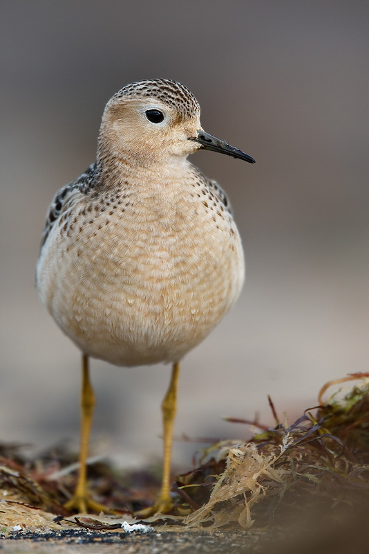 Autumn migration on the Cantabric coast